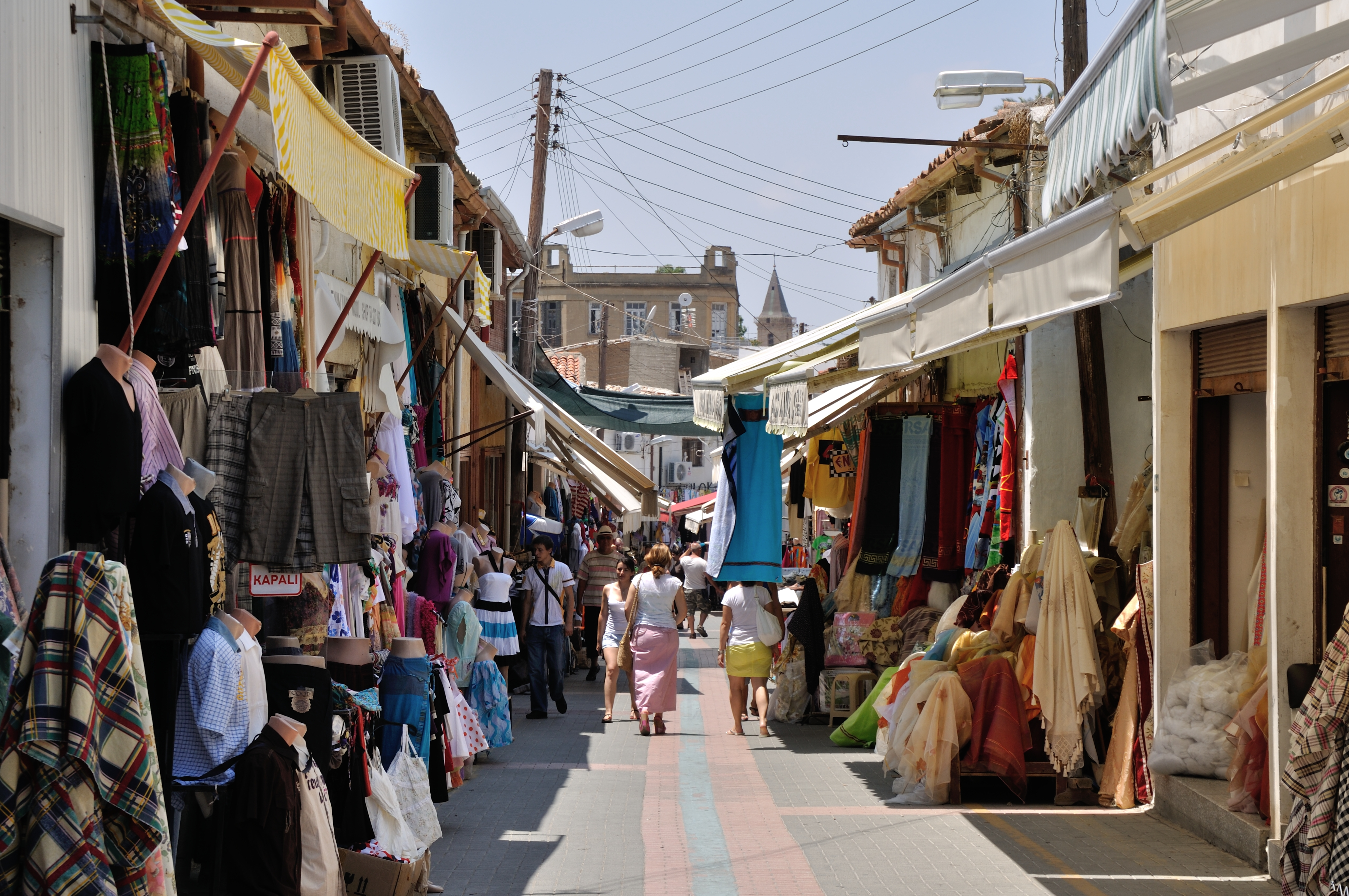 Turkish Republic of Northern Cyprus, views of Nicosia